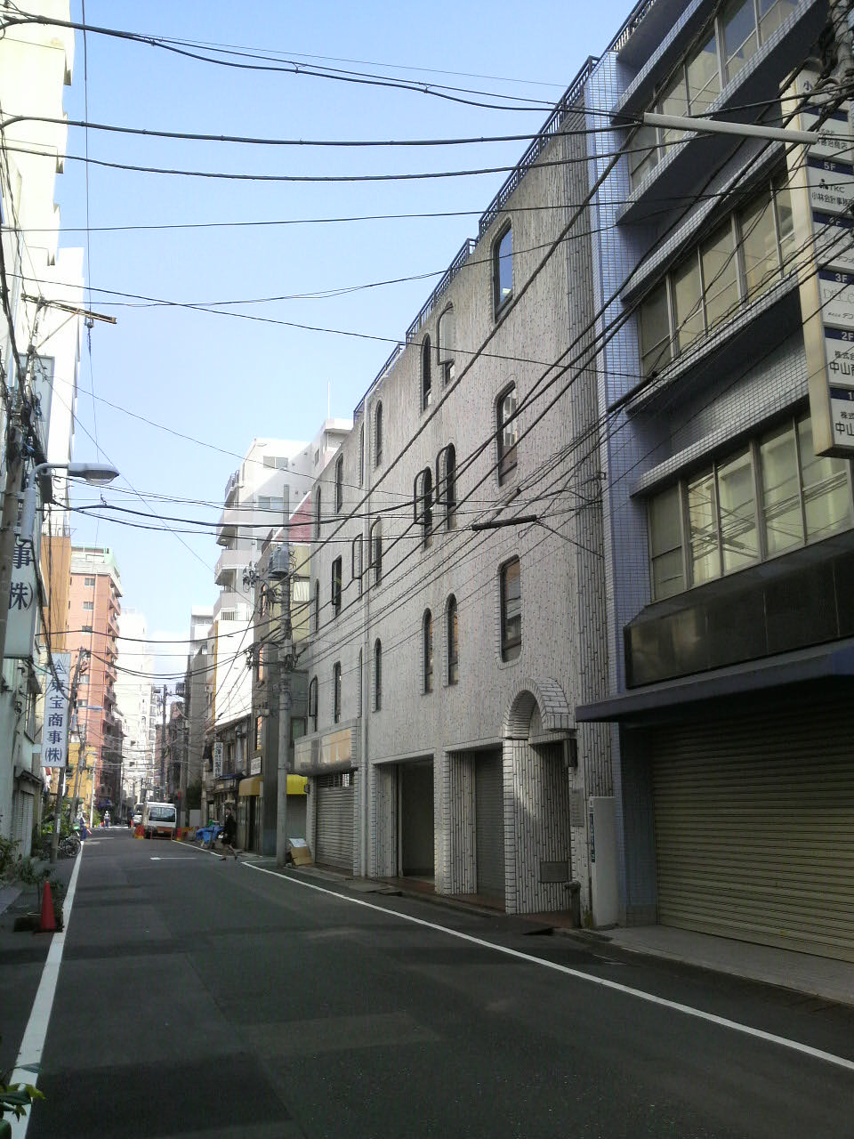 mikihonnsha